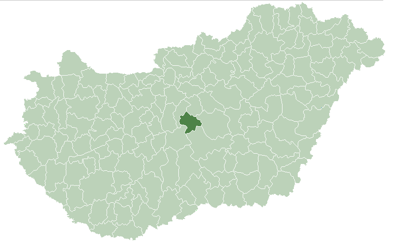 Location of subregion Dabas, Hungary